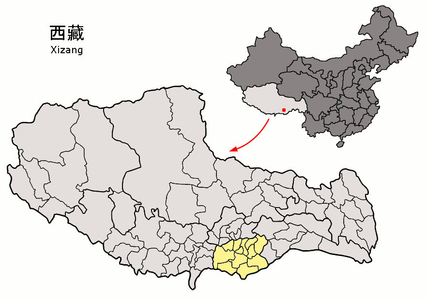 Location of Shannan Prefecture (yellow) within Tibet (Xizang) autonomous region of China